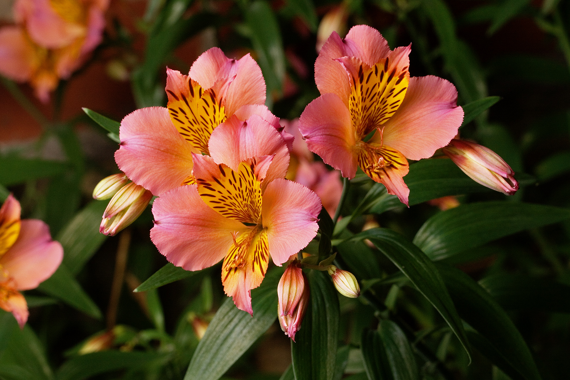 Alstroemeria aurea 'Saturne' in southern Tasmania, Australia